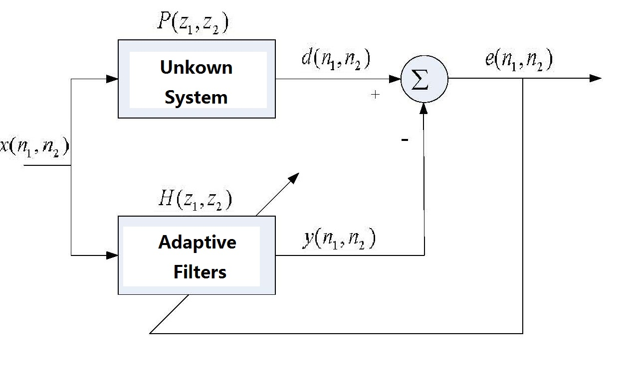 it is the 2D block diagram of 2d adaptvie filters